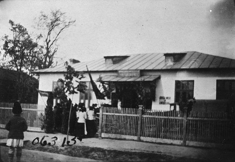 Dr. Breckinridge Bayne's American Red Cross Dispensary and operating rooms, Bileiuresti, Roumania